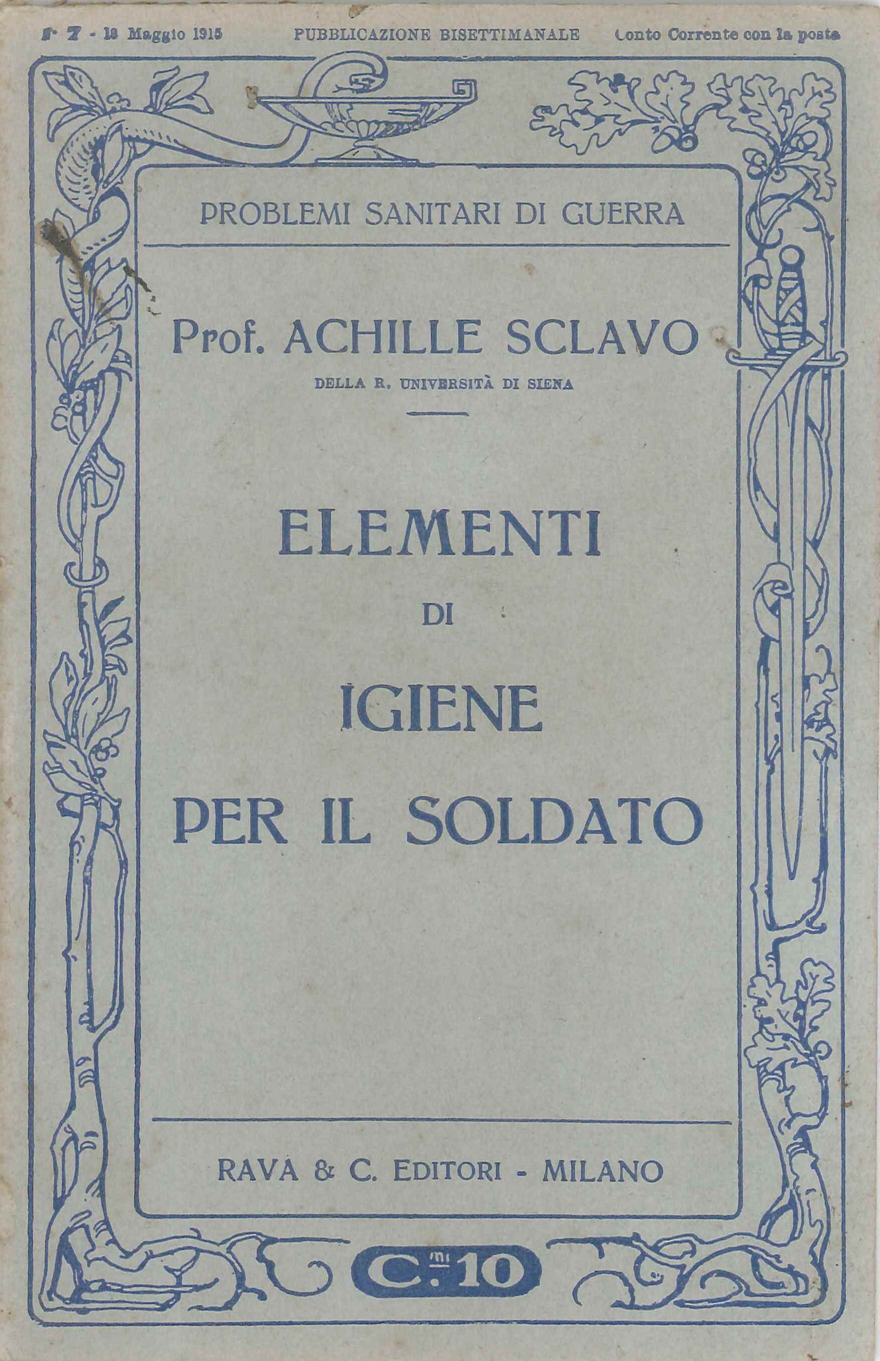 cover of a 1915 publication